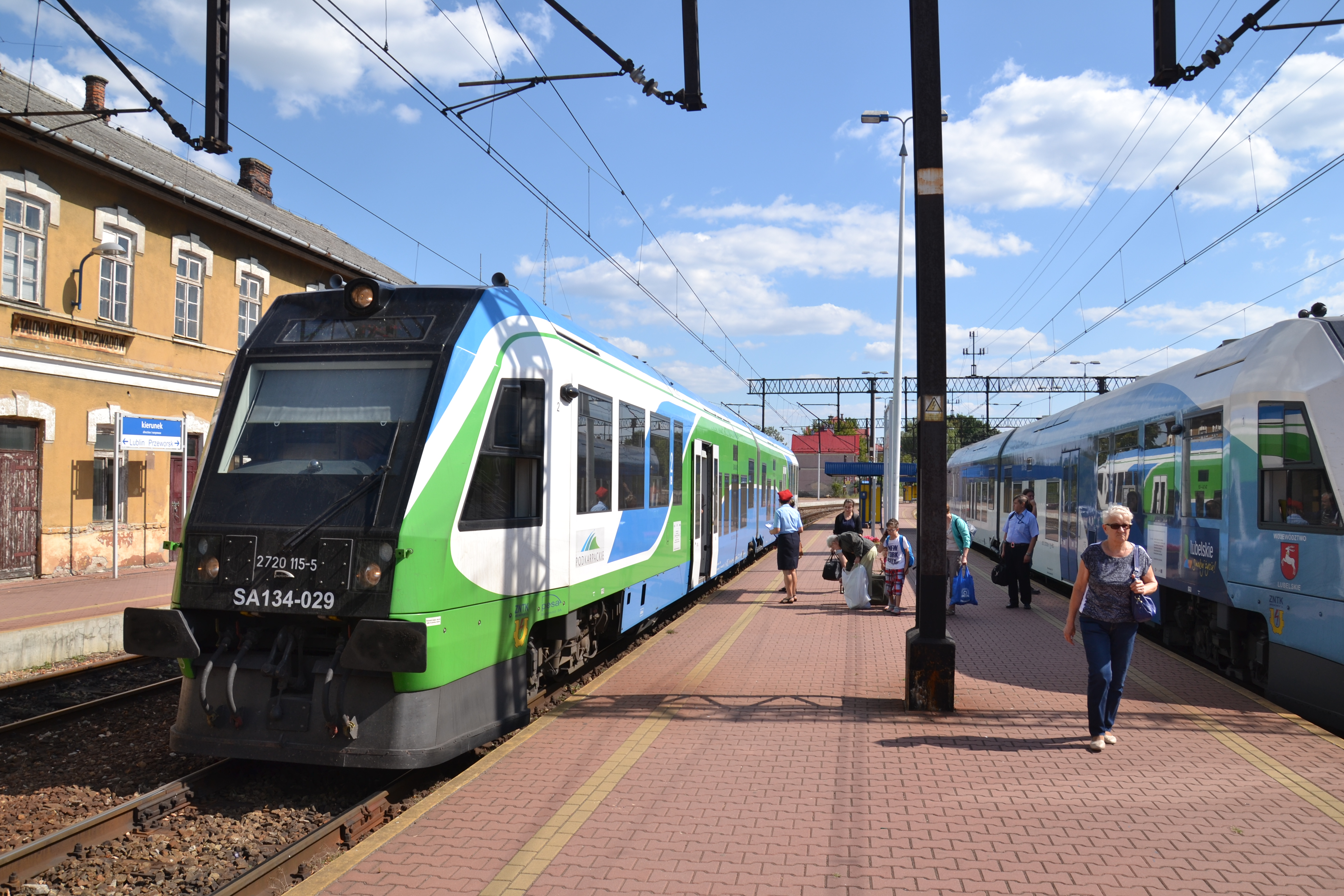 SA134-029 na stacji Stalowa Wola Rozwadów This photo was taken during Railway Wikiexpedition 2015 set up by Wikimedia Polska Association in cooperation with Fundacja Grupy PKP. You can see all photographs in category Wikiekspedycja kolejowa 2015.